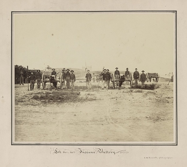 This is a slightly cropped image of the 20th Independent Battery Indiana Light Artillery made near Chattanooga, Tenn., probably between November 1864 and June 1865.